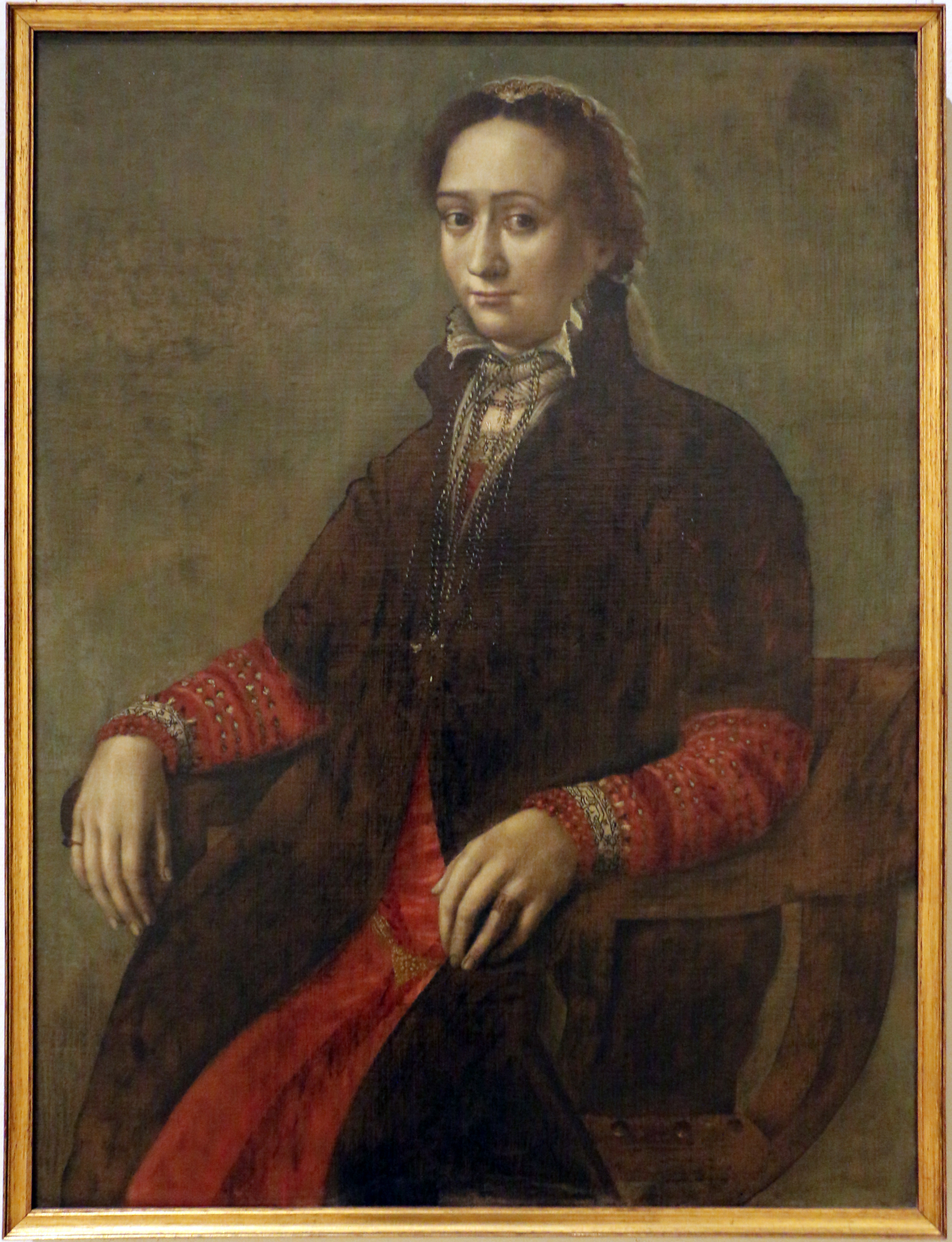 Pinacoteca del Castello Sforzesco